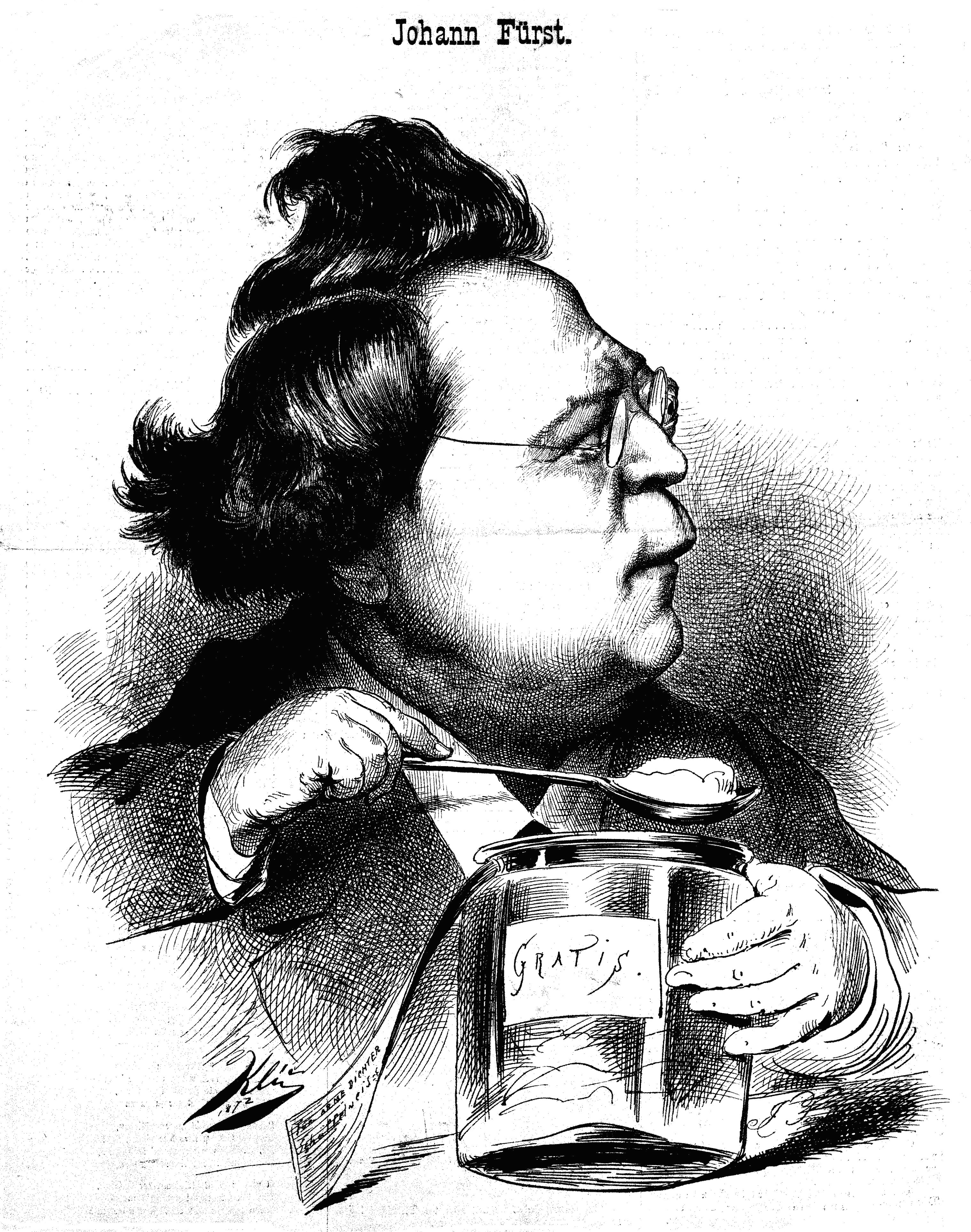 Cartoon of Johann Fürst (1825-1882), Austrian singer and actor.